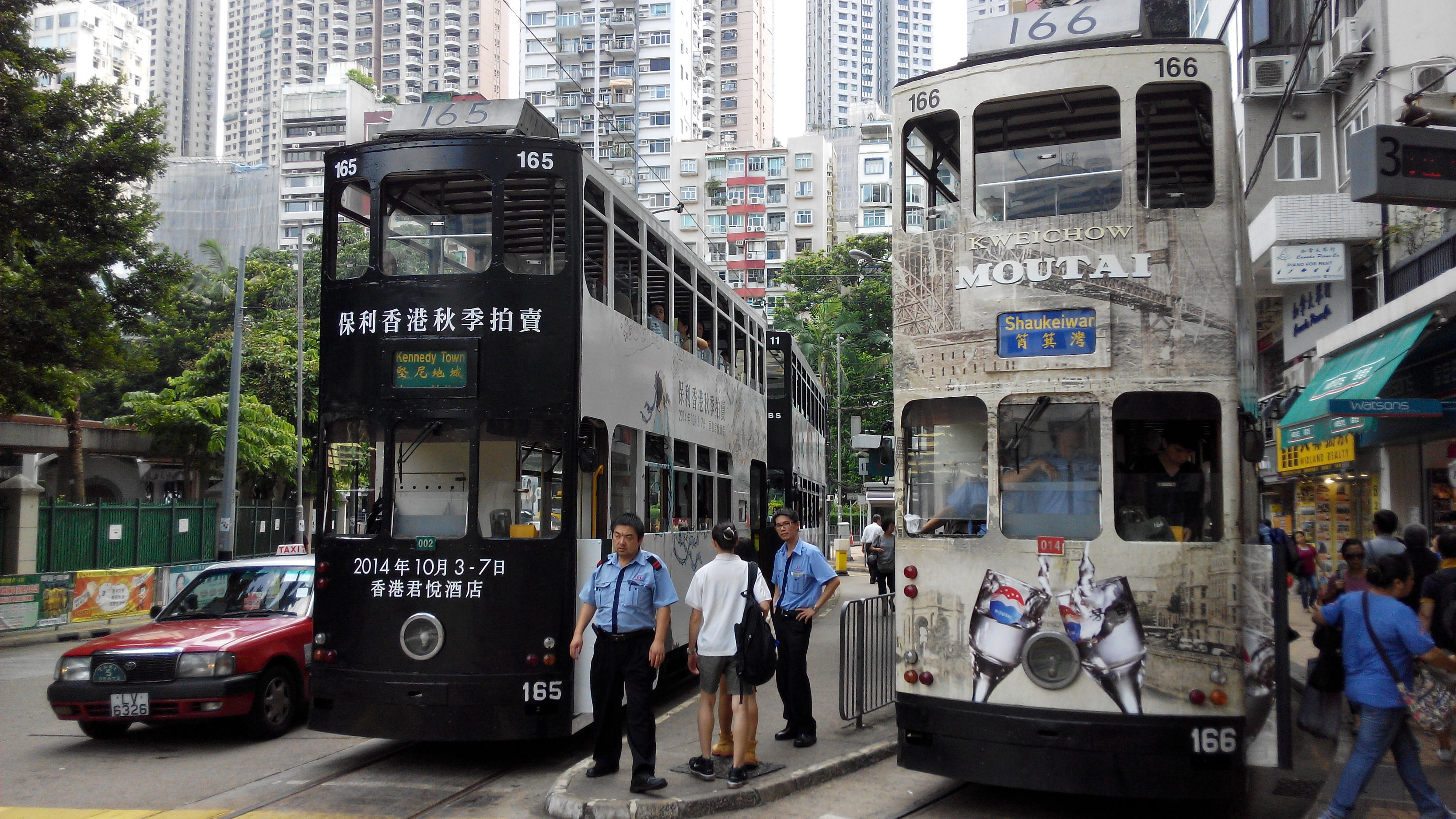 Happy Valley, Hong Kong 跑馬地 Happy Valley Terminus, Wong Nai Chung Road 黃泥涌道